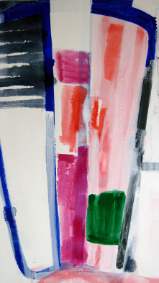 Painting